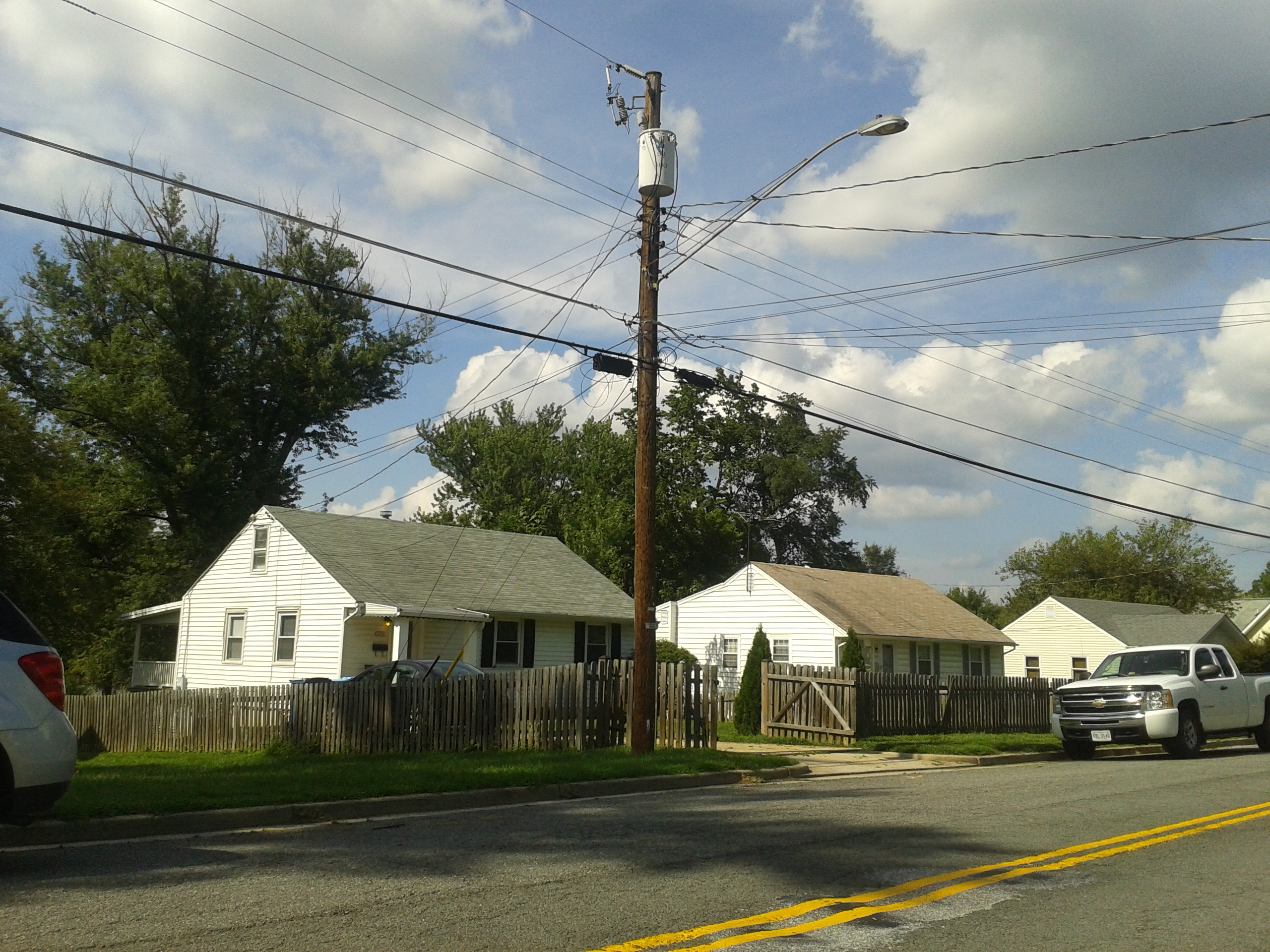 Pimmet Hills CDP, Fairfax County, Virginia